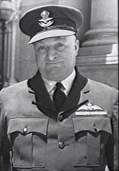 From the Australian War Memorial collection/137210, MELBOURNE, VIC. 1942-12-04. 260231 SQUADRON LEADER F. NEALE AFC, OF THE RAAF.